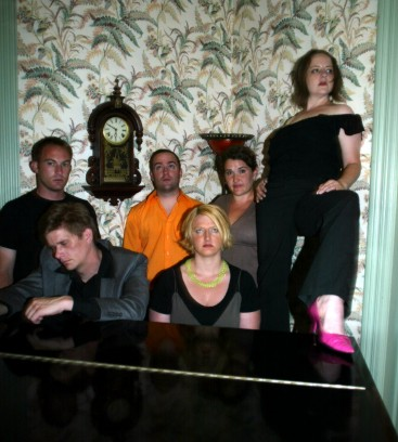 Buntport Theater Company, circa 2008: Evan Weissman, Erik Edborg, Brian Colonna, SamAnTha Schmitz, Hannah Duggan, Erin Rollman.